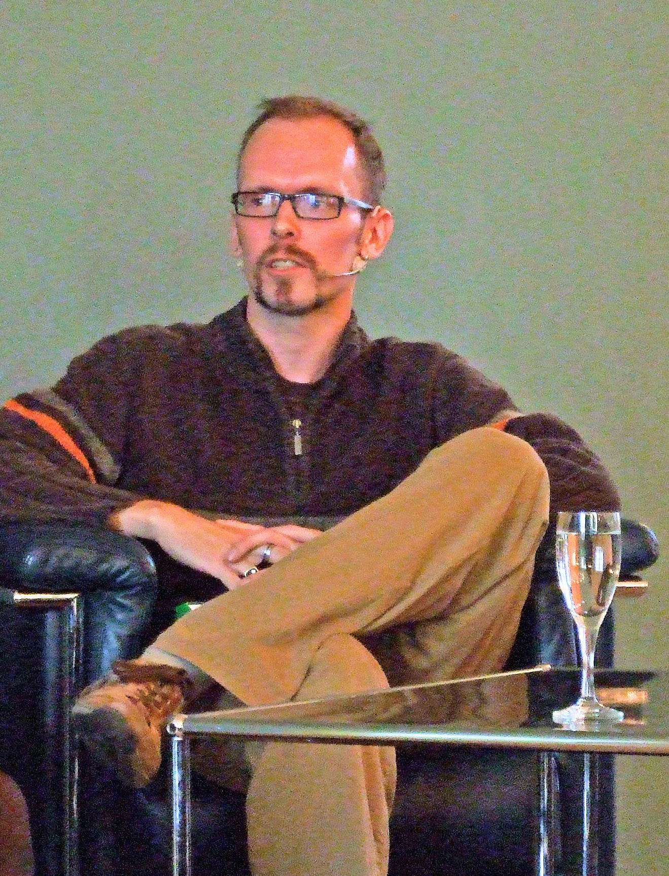 Dietmar Dath (German writer and shortlisted author for German Book Prize 2008) at Literaturhaus Frankfurt